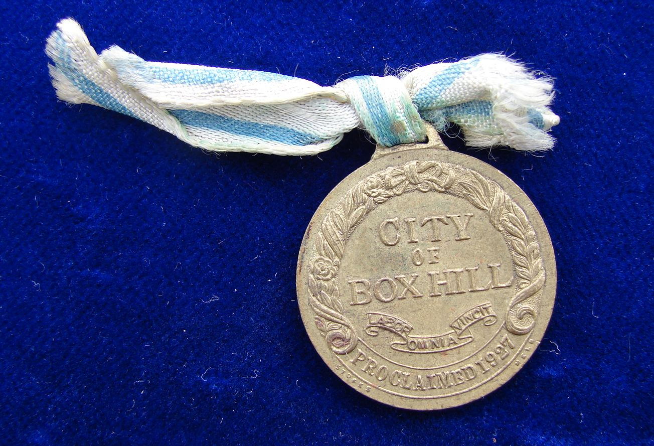 Bronze medallion, d. = 27 mm. At centre within wreath 3 lines: "CITY OF BOX HILL" , below on ribbon, "LABOR OMNIA VINCIT". Curved below as extension of wreath: " PROCLAIMED 1927". Museum Victoria NU 18218; Car.1957/1. Issued By: City of Box Hill, Box Hill, Victoria, Australia Mint: Stokes & Sons, 1957. Condition: EXTREMELY FINE, with original ribbon.